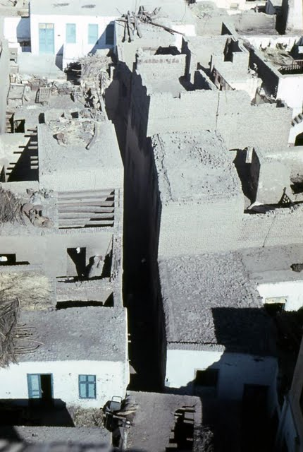 Street in Edfu